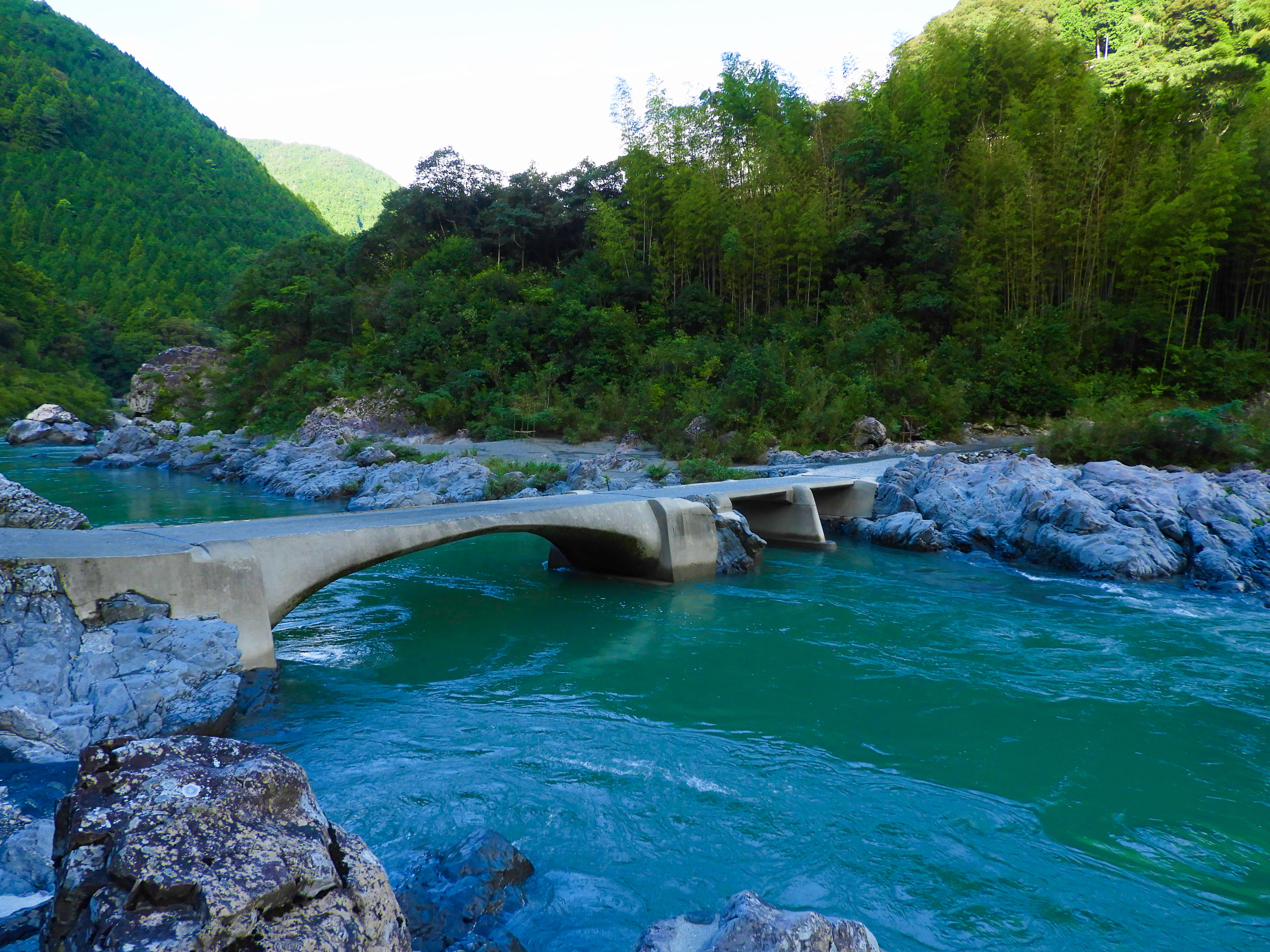 Kuki Bridge over the Niyodo River in Kochi Prefecture, Japan